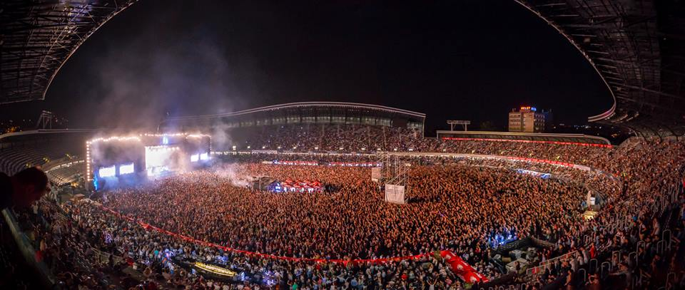 Untold Festival, main stage